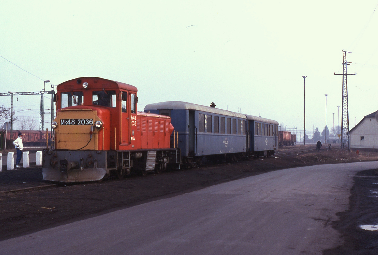 12 February 1993 saw a visit to the 760mm gauge system in Hungary from Kecskemét to Kiskunmajsa and Kiskőrös. Seen at Kiskőrös KK (adjacent to the main line station) is Mk48 2036 on a 2-coach train. Accommodation was basic - wooden slatted seats and coal fired stoves to keep passengers warm on sub-zero temperatures as the trains trundled over the flat Hungarian countryside. Passenger services on this system continued until December 2009.